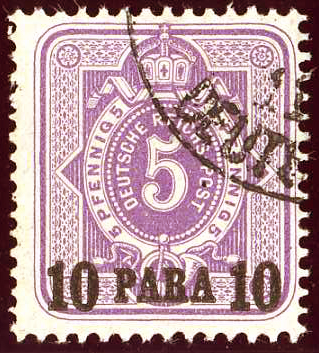 10 para surcharge on 5 pfg violet Reich 1879 issue. Light cancel.